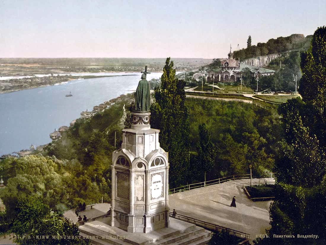 The Vladimir the Great Monument in Kiev, Ukraine. The postcard from album stored in The Library of Congress. This postcard published in USA in 1905 by Detroit Publishing Co. Size of postcard 16.5 x 22.5 cm.